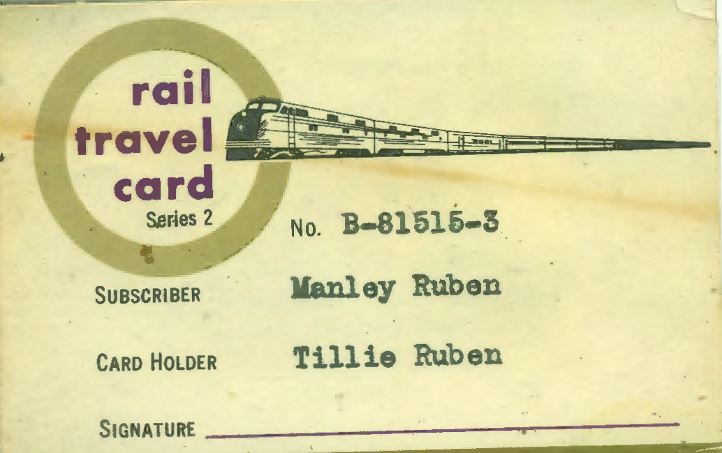 Front of the Rail Travel Card, a charge card issued by railroads to encourage passenger rail travel. It was honored by most major railroads in the United States.